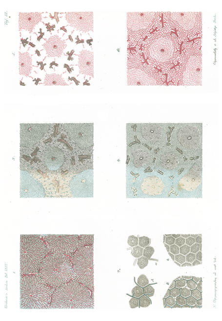 Chrzonszczewsky pictures of alveolar epithelium in Virhow's Archive